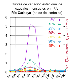 Caudal medio mensual en l/s estimado del río Caritaya antes del embalse, a partir de los caudales ríos Codpa y Camiña. # Comisión Nacional de Riego # Diágnostico de la subcuenca aportante al Embalse Caritaya. Informe final. # Santiago de Chile # 2014 # url = # Tabla 5-14: Caudal medio mensual estimado para el río Caritaya antes del embalse Caritaya en l/s mes codpa camiña ene 285 355 feb 489 352 mar 399 305 abr 150 182 mav 94 176 jun 85 190 jul 84 194 ago 61 196 sep 44 177 oct 36 163 nov 31 140 dic 52 164 Curvas de variación estacional del río Caritaya DEDUCIDAS desde otras cuencas: # Evaluación de recursos hídricos y modelo operacional, embalse Caritaya, Valle Camarones, Región de Arica y Parinacota # Mónica Andrea Vásquez Gamboa # 2016 # Universidad Técnica Federico Santa María # url # Tabla 4.22: Curva de Variación Estacional, Embalse Caritaya, en [m3/s], pág. 67 mes 5% 10% 25% 50% 85% 90% 95% oct 0.206 0.202 0.198 0.157 0.078 0.067 0.060 nov 0.213 0.212 0.206 0.163 0.085 0.067 0.055 dic 0.348 0.320 0.218 0.194 0.162 0.073 0.065 ene 1.217 0.578 0.460 0.423 0.243 0.169 0.107 feb 5.285 1.352 0.595 0.565 0.236 0.193 0.081 mar 4.860 0.942 0.429 0.401 0.208 0.170 0.076 abr 0.493 0.380 0.226 0.203 0.138 0.080 0.068 may 0.210 0.207 0.201 0.162 0.090 0.066 0.062 jun 0.217 0.212 0.207 0.166 0.099 0.068 0.064 jul 0.224 0.208 0.202 0.161 0.084 0.066 0.062 ago 0.207 0.206 0.200 0.161 0.084 0.070 0.063 sep 0.214 0.211 0.206 0.166 0.090 0.074 0.064